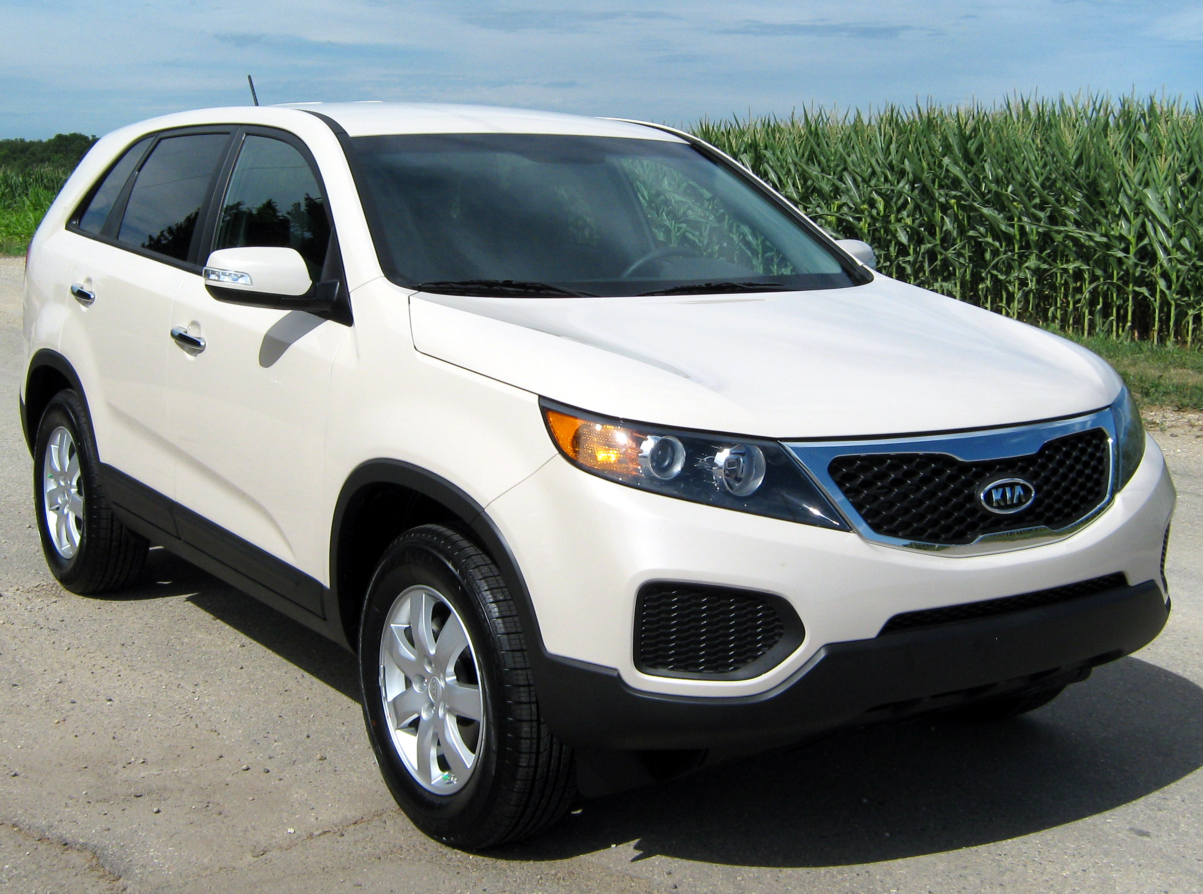 2012 Kia Sorento photographed in USA.